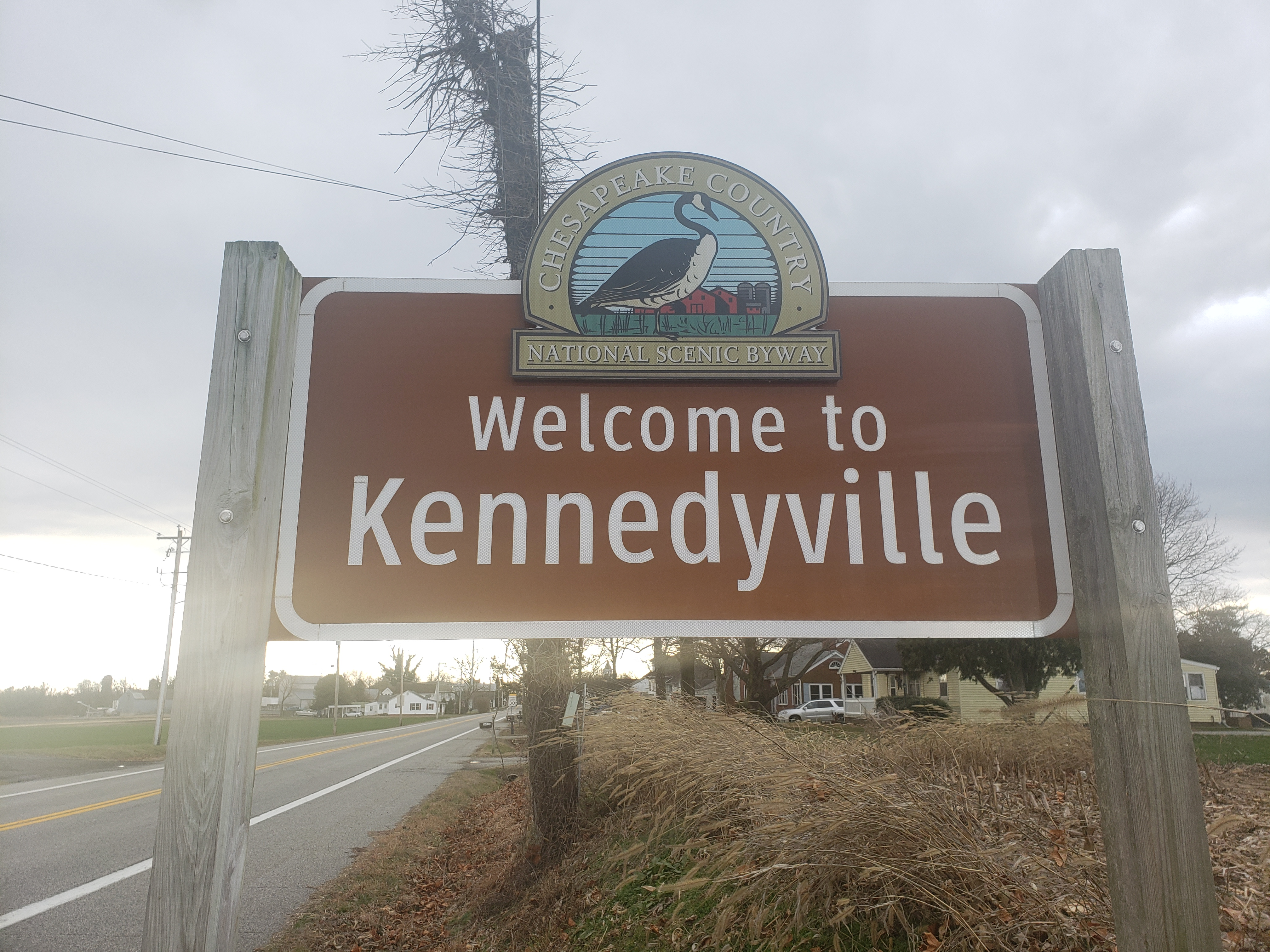 Sign Welcoming visitors to Kennedyville, MD